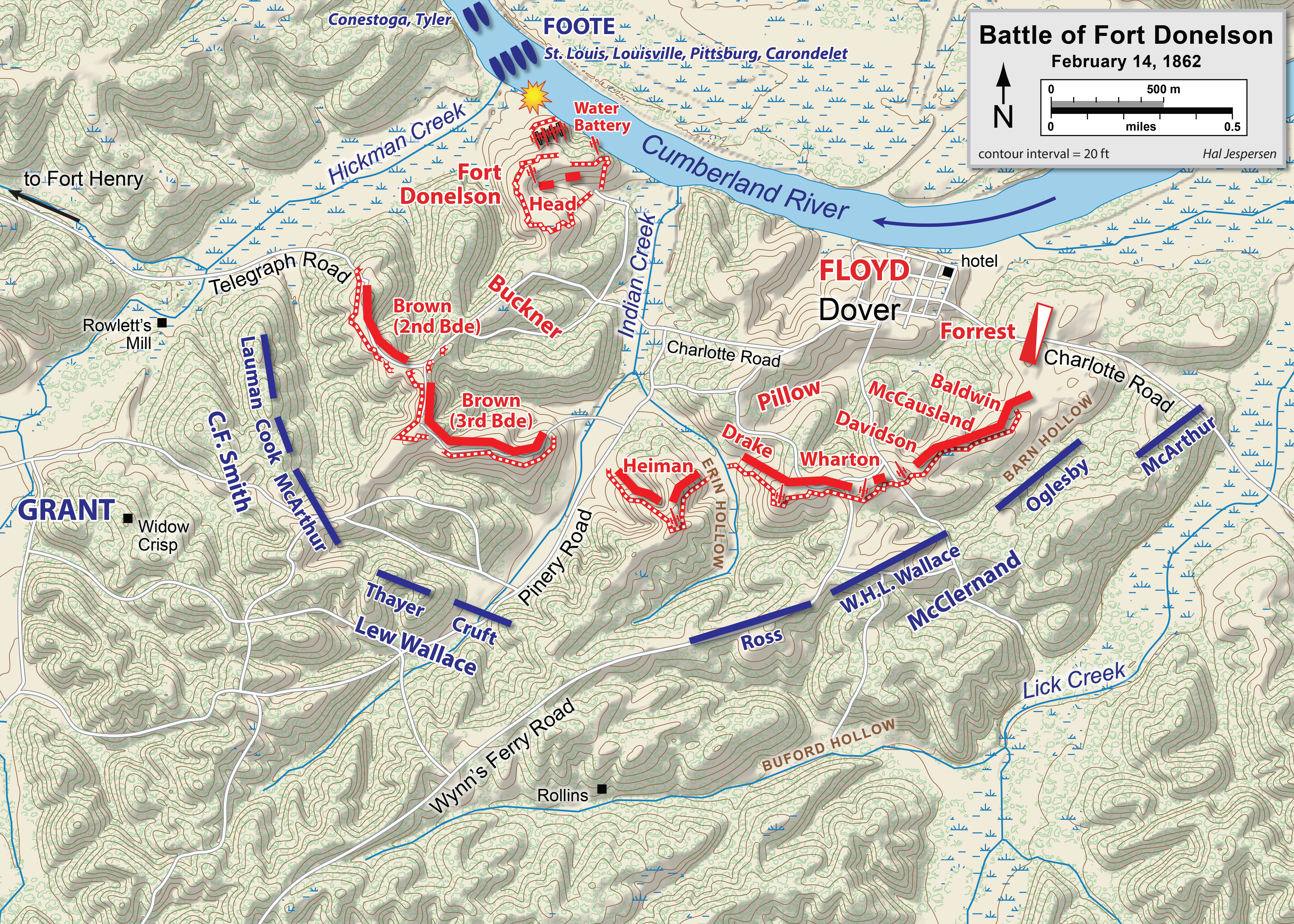 One of a series of 4 maps of the Battle of Fort Donelson of the American Civil War. Drawn in Adobe Illustrator CC by Hal Jespersen. Graphic source file is available at